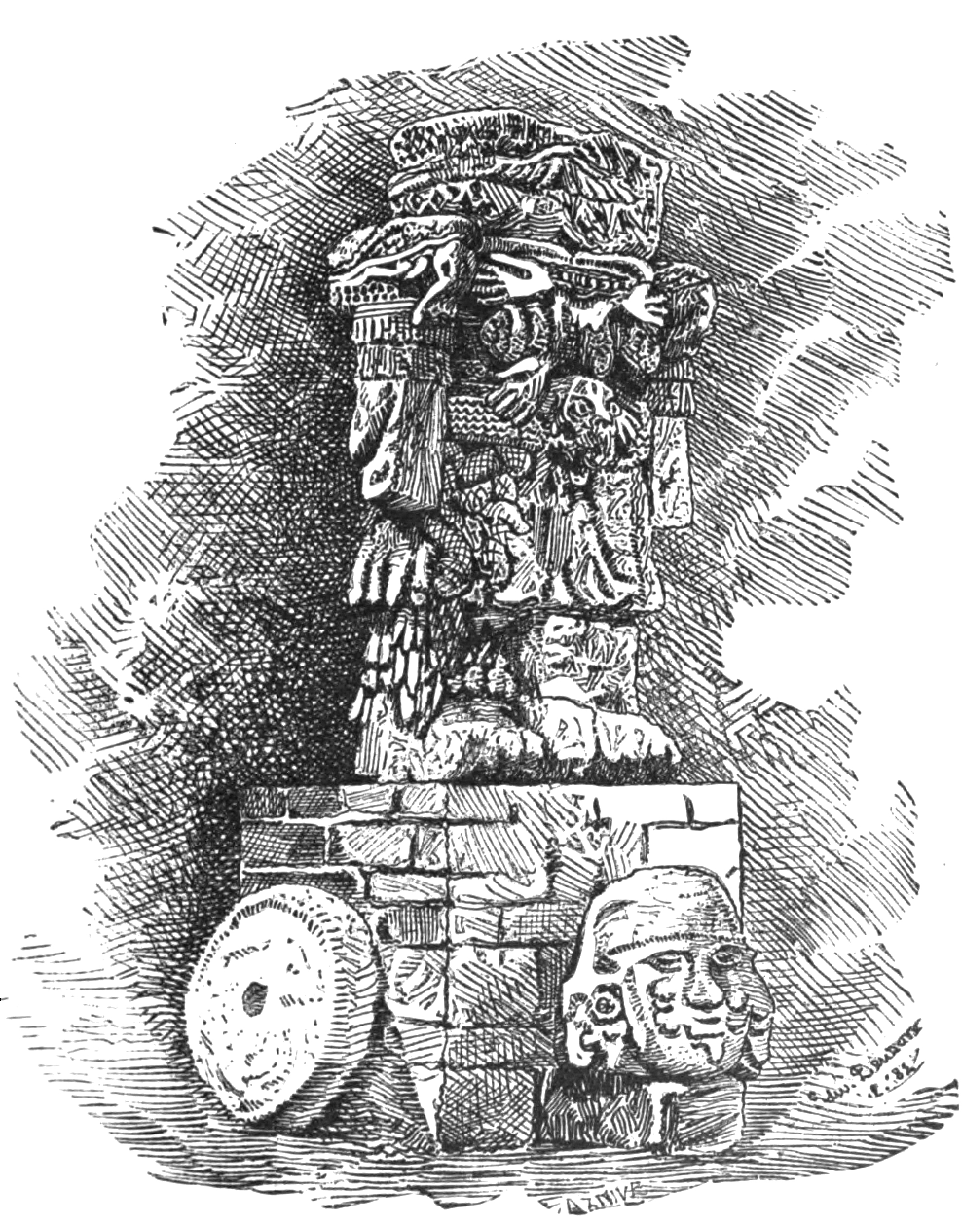 The image caption is the same image caption in the book, "Young Folks History Of Mexico"